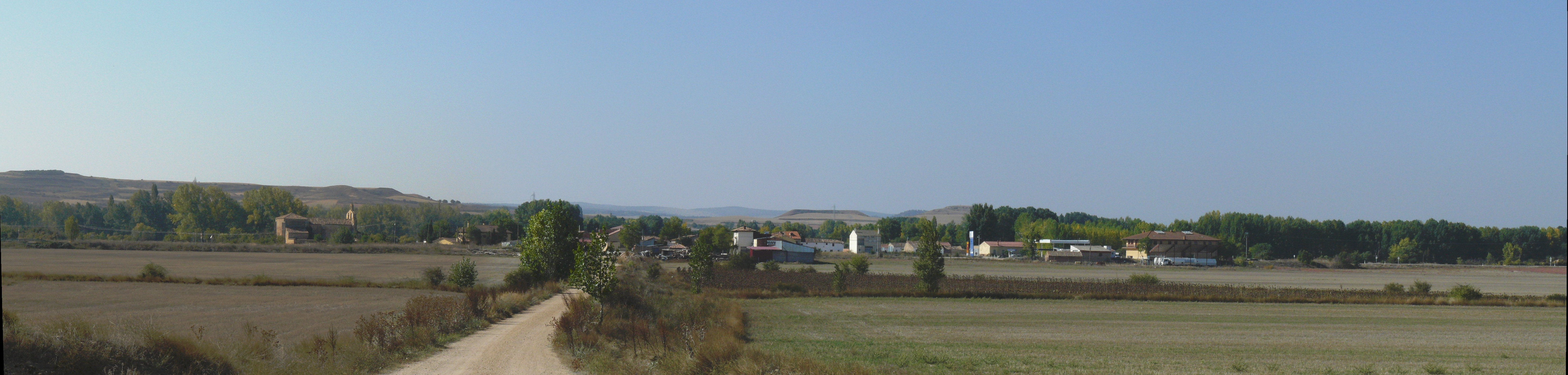 View of Hortezuela from the North, Soria (Spain).